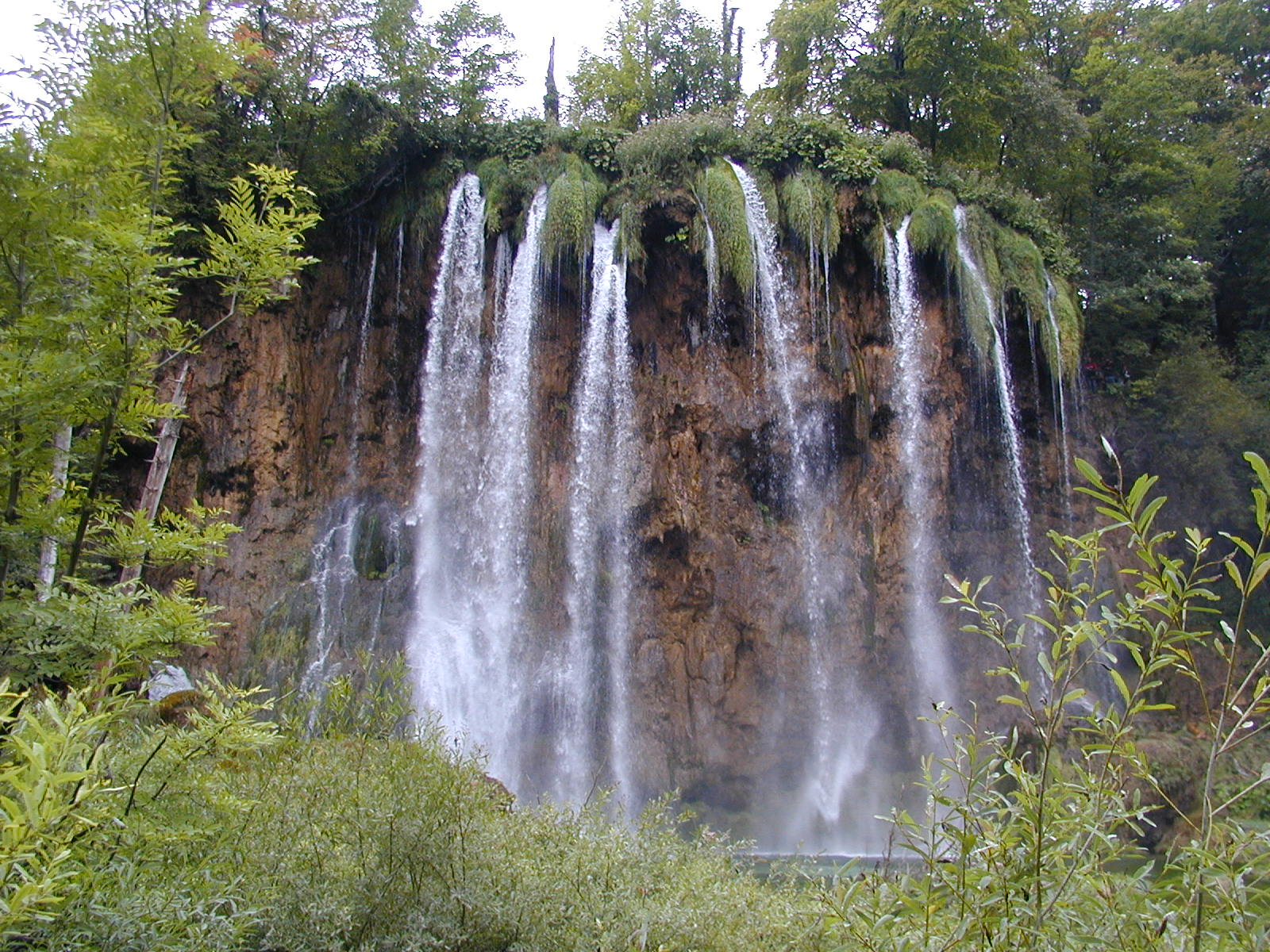 Plitvice nationalpark.